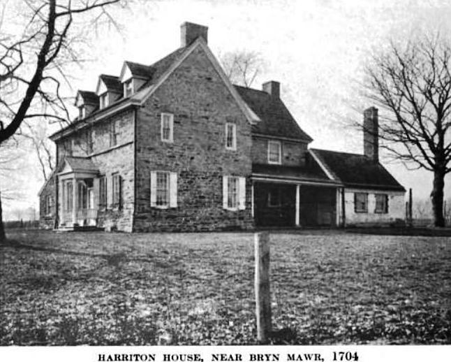 Photograph of Harriton House, Bryn Mawr, Pa circa 1919